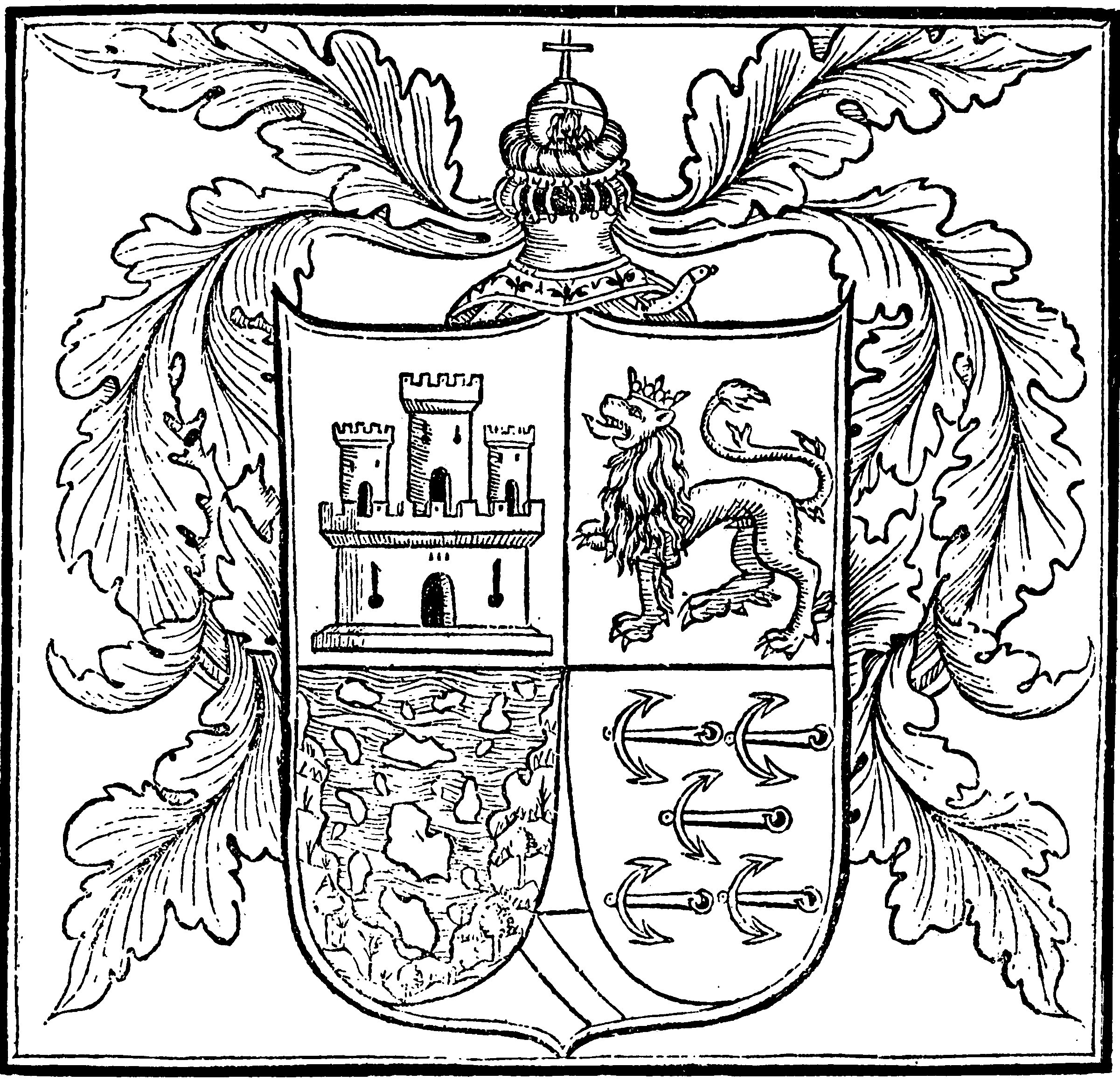 Scan from "Narrative and critical history of America, Volume 2" by Justin Winsor. Scans for whole book are at